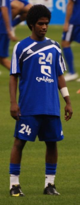 Nawaf Al Abed (Arabic: نواف العابد) is a striker for the Al-Hilal Saudi Arabian professional football club.